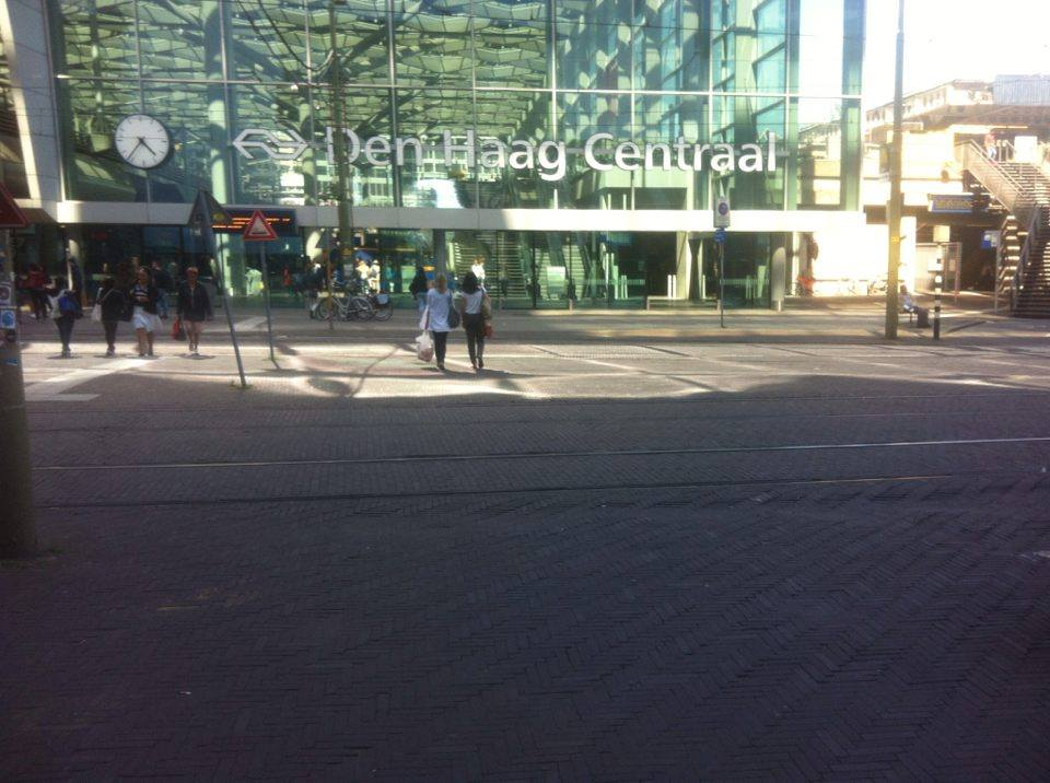 The Hague Central station